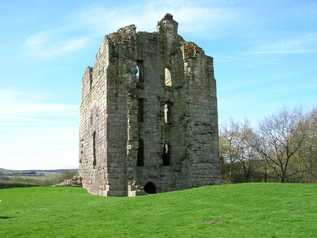 Etal Castle